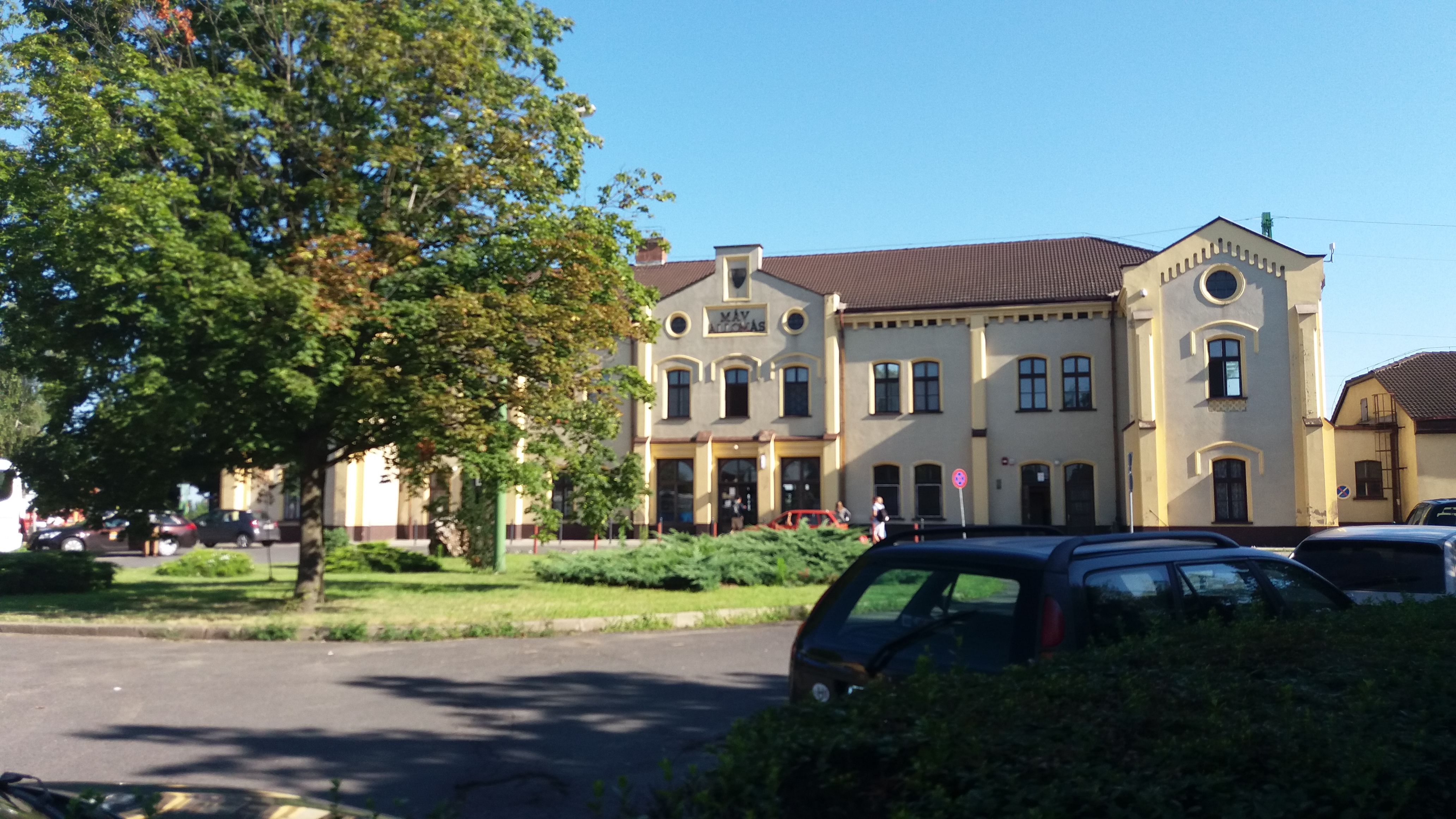 Station building of Püspökladány railway station, Bucsanszky Square, town of Puspokladany, Hungary